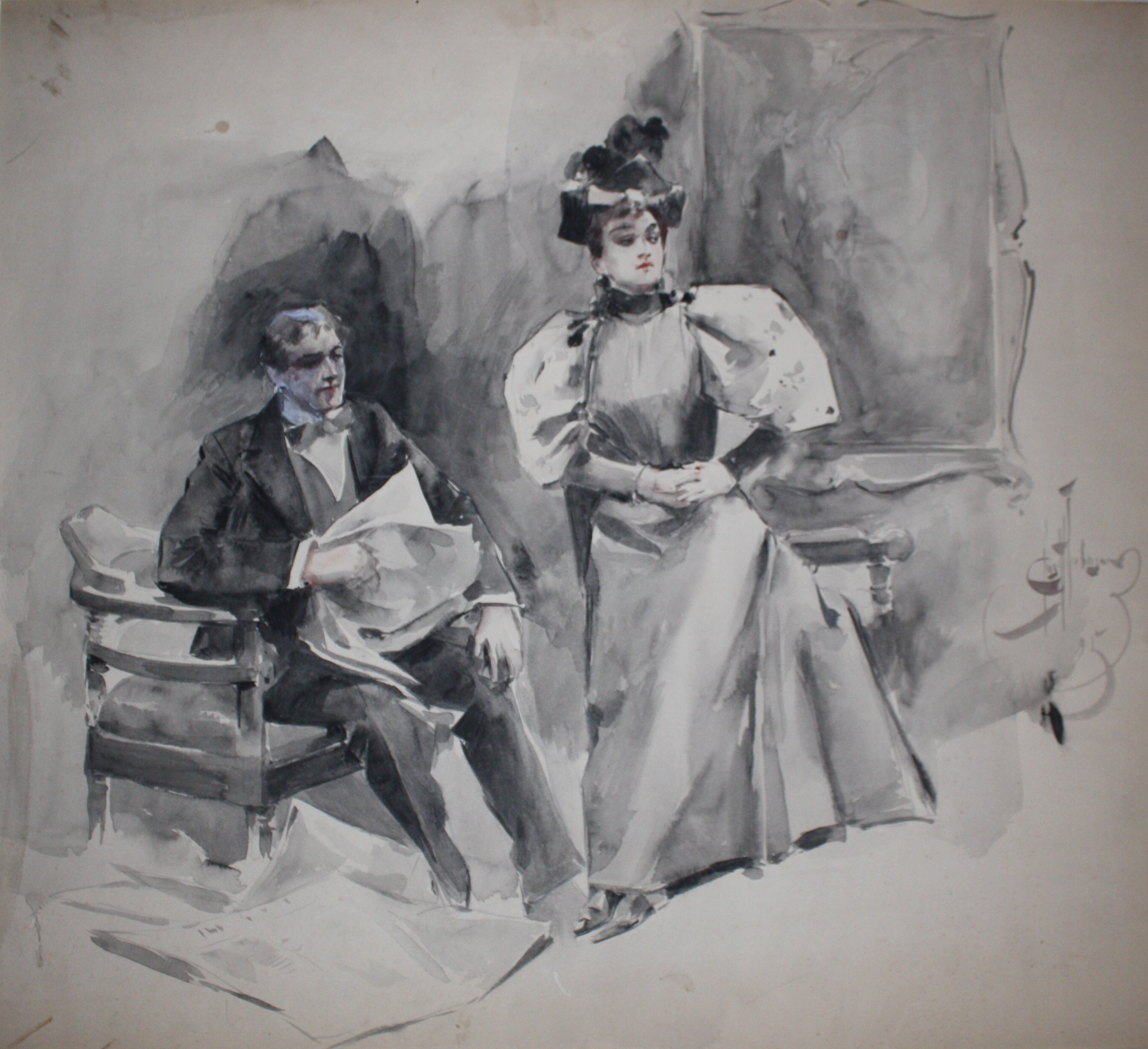 Watercolor on board. Image size 23.3" x 21". Likely from a centerfold in Life or Truth magazine. Signed "Chas. H. Johnson" and dated (18)95.